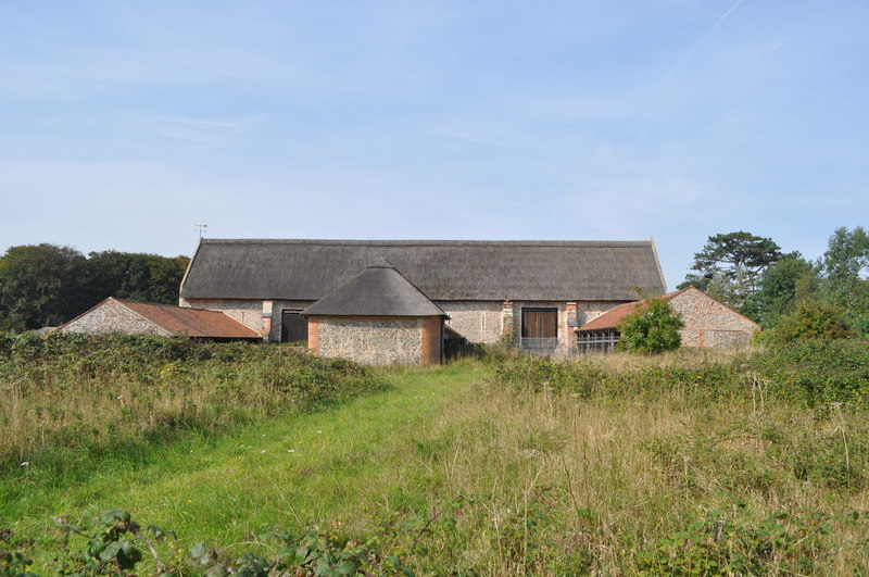 Paston Barn, near to Paston, Norfolk, Great Britain. This 16th century barn (built 1581) is a rare and unique survivor and now a scheduled ancient monument. It is also the centre of a nature reserve, home to rare Barbastelle bats. This is addition to the 7 others including common, soprano, nathusius's pipisstrelle, natterer's, daubenton's, long brown eared and the noctule bat. To prevent disturbance the build is for permit holders only.